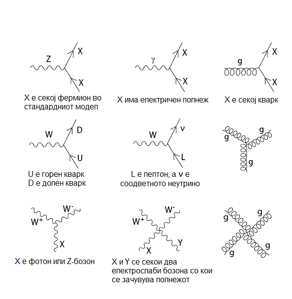 A list with Macedonian labels of the vertices that appear in Standard Model Feynman Diagrams. Higgs Boson interactions and neutrino oscillations are omitted. Feynman rule values of the vertices are also omitted.